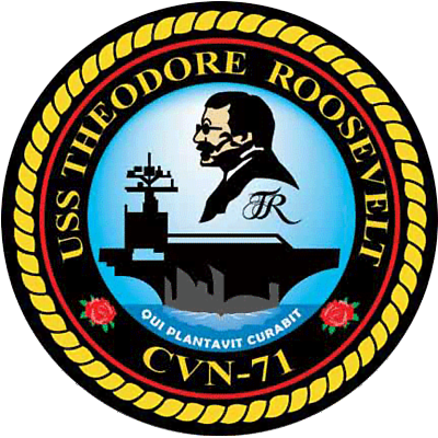 Insignia of the USS Theodore Roosevelt (CVN-71).